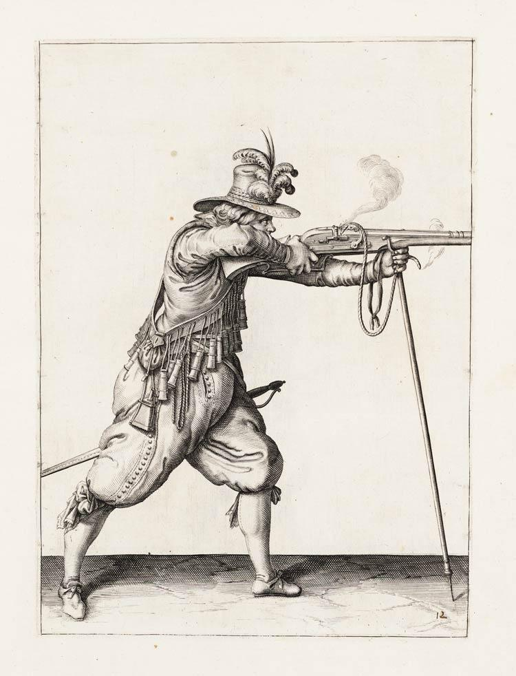 Instructions for the use of the musket. Instruction 12:Fire.